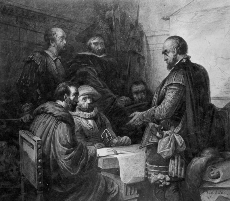 19th-century view of the 1579 Siege of Maastricht, Netherlands. Painting by Jan Hendrik van de Laar van de Laar in the collection of the Musées Royaux des Beaux-Arts de Belgique, Brussels. CHO KIK IRPA. AP 10341622.